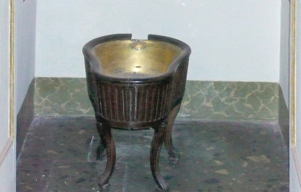 Bidet Palace of Caserta in the bathroom of Queen Maria Carolina of Habsburg-Lorraine